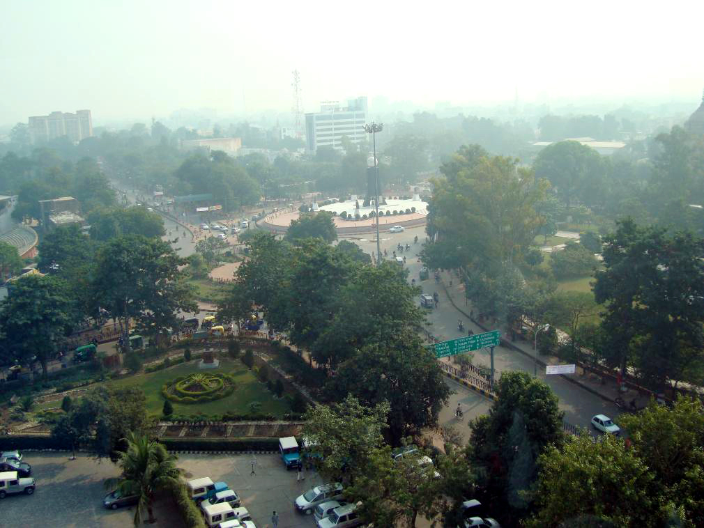 Parivartan Chowk(Change Square) at Lucknow situated at the confluence mausoleums of Nawab Mushir Zadi & Nawab Saadat Ali Khan , Begum Hazrat Mahal Park, Hotel Clarks Avadh, K.D. Singh Babu Stadium, Oudh Gymkhana Club, Netaji Shubhash Chowk and Laxman Park Narhi Bazaar